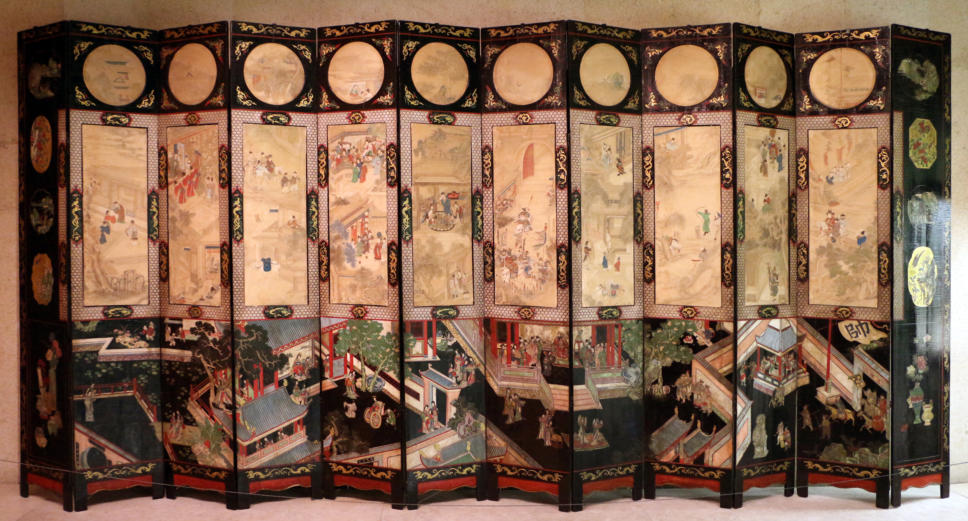 Chinese art in the Calouste Gulbenkian Museum